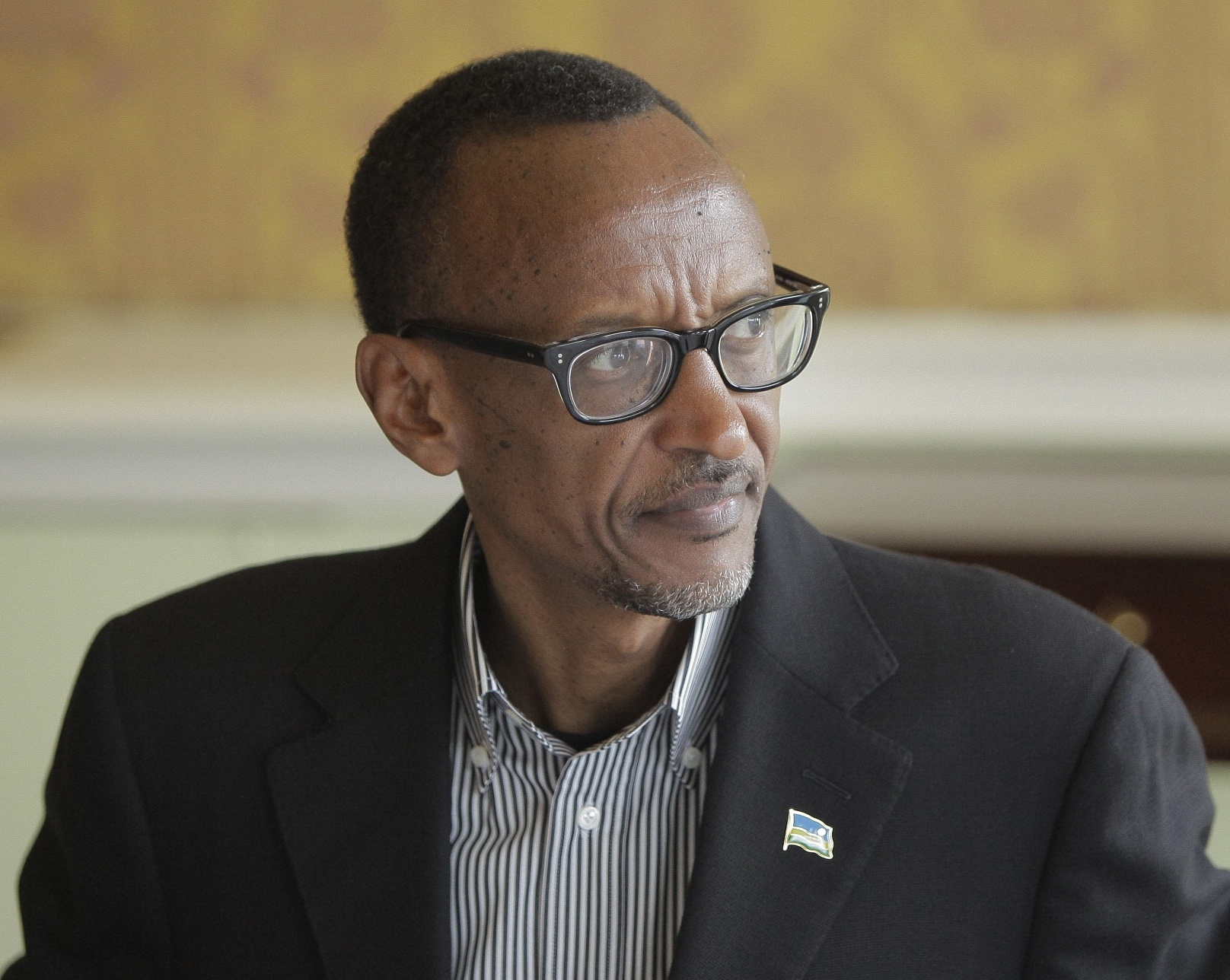 H.E. President of Rwanda, Paul Kagame at the 9th Broadband Commission Meeting, Dublin 22-23 March 2014.